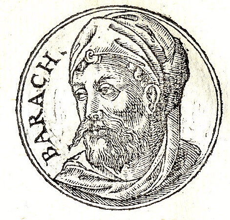 Barak the son of Abinoam from Kedesh in Naphtali, was a military general in the Book of Judges in the Bible.